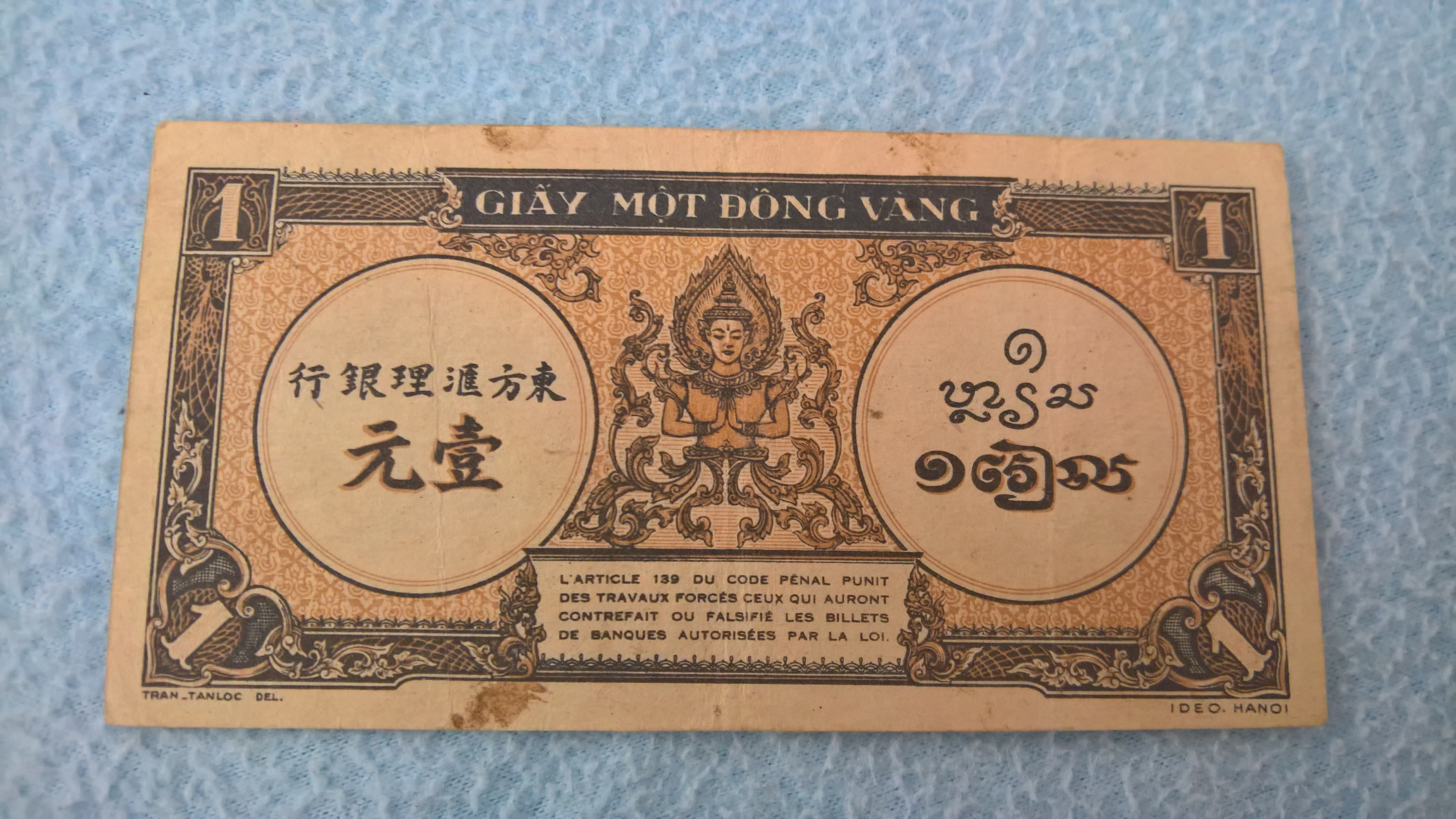 A French Indochinese banknote of 1 (one) Piastre.